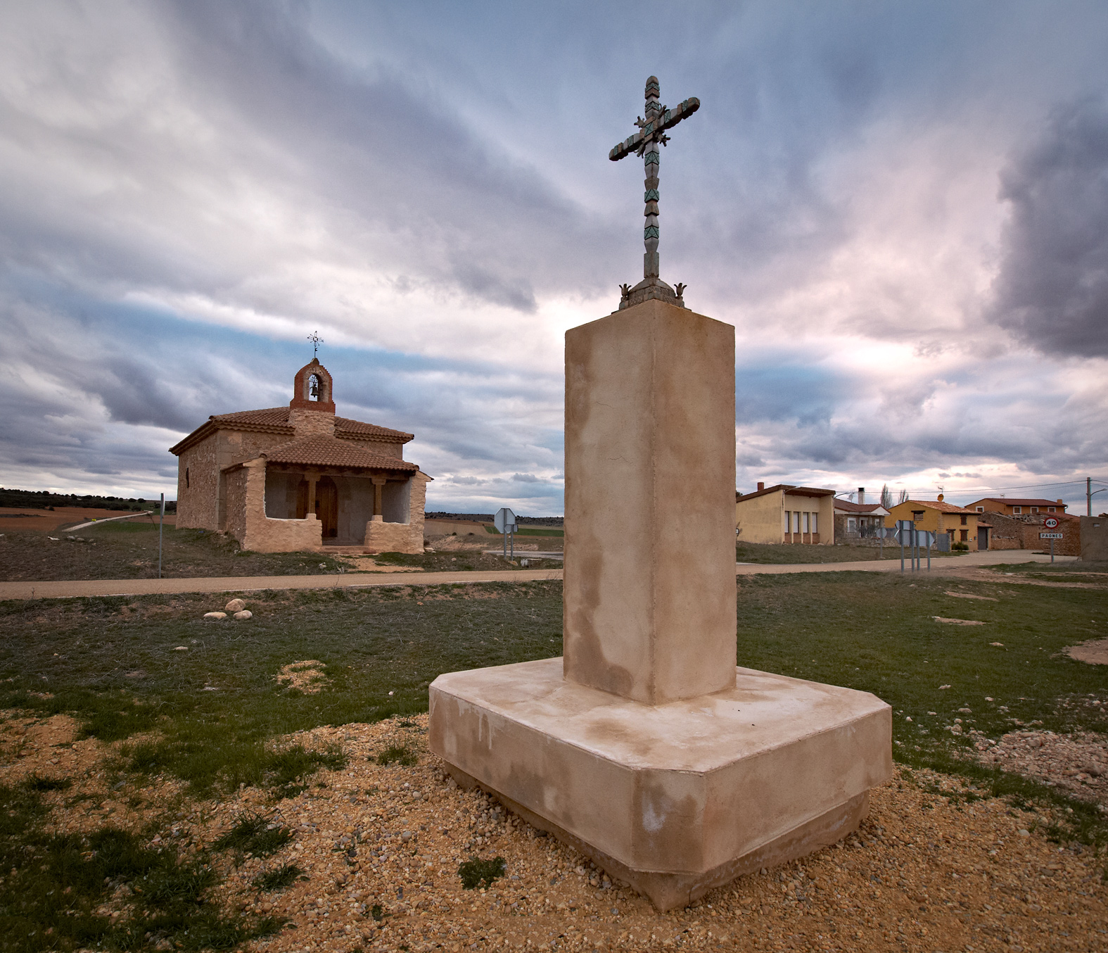 Paones, Berlanga de Duero (Soria, Spain)